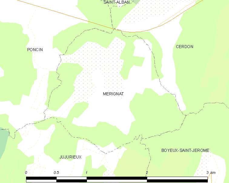 Map of French commune: Mérignat Map commune FR insee code 01242.png